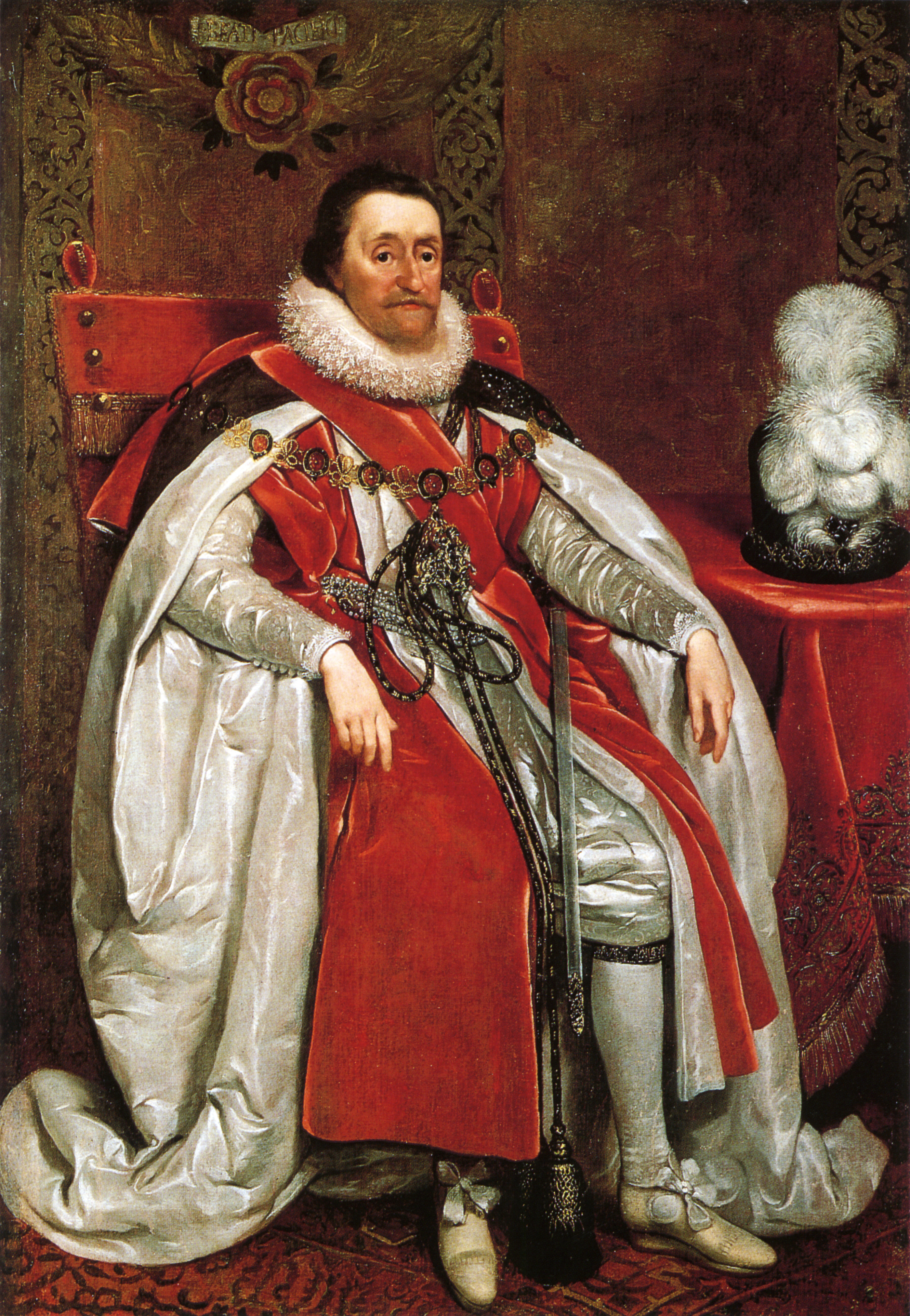 This image is a JPEG version of the original PNG image at File: James I of England by Daniel Mytens.png. Generally, this JPEG version should be used when displaying the file from Commons, in order to reduce the file size of thumbnail images. However, any edits to the image should be based on the original PNG version in order to prevent generation loss, and both versions should be updated. Do not make edits based on this version. See here for more information. King James VI of Scotland and latterly James the first of England, by Daniel Mytens, 1621. National Portrait Gallery: NPG 109 While Commons policy accepts the use of this media, one or more third parties have made copyright claims against Wikimedia Commons in relation to the work from which this is sourced or a purely mechanical reproduction thereof. This may be due to recognition of the "sweat of the brow" doctrine, allowing works to be eligible for protection through skill and labour, and not purely by originality as is the case in the United States (where this website is hosted). These claims may or may not be valid in all jurisdictions. As such, use of this image in the jurisdiction of the claimant or other countries may be regarded as copyright infringement. Please see Commons:When to use the PD-Art tag for more information.See User:Dcoetzee/NPG legal threat for original threat and National Portrait Gallery and Wikimedia Foundation copyright dispute for more information. This tag does not indicate the copyright status of the attached work. A normal copyright tag is still required. See Commons:Licensing.